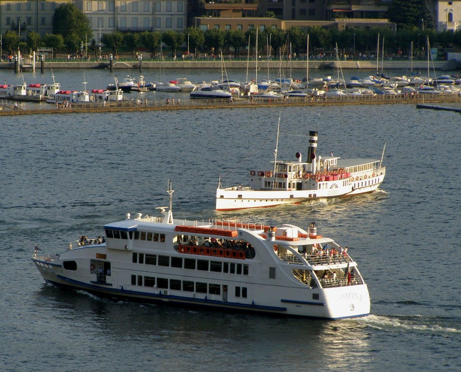 Boats in Como (Italy).